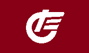 Flag of Tabayama Yamanashi